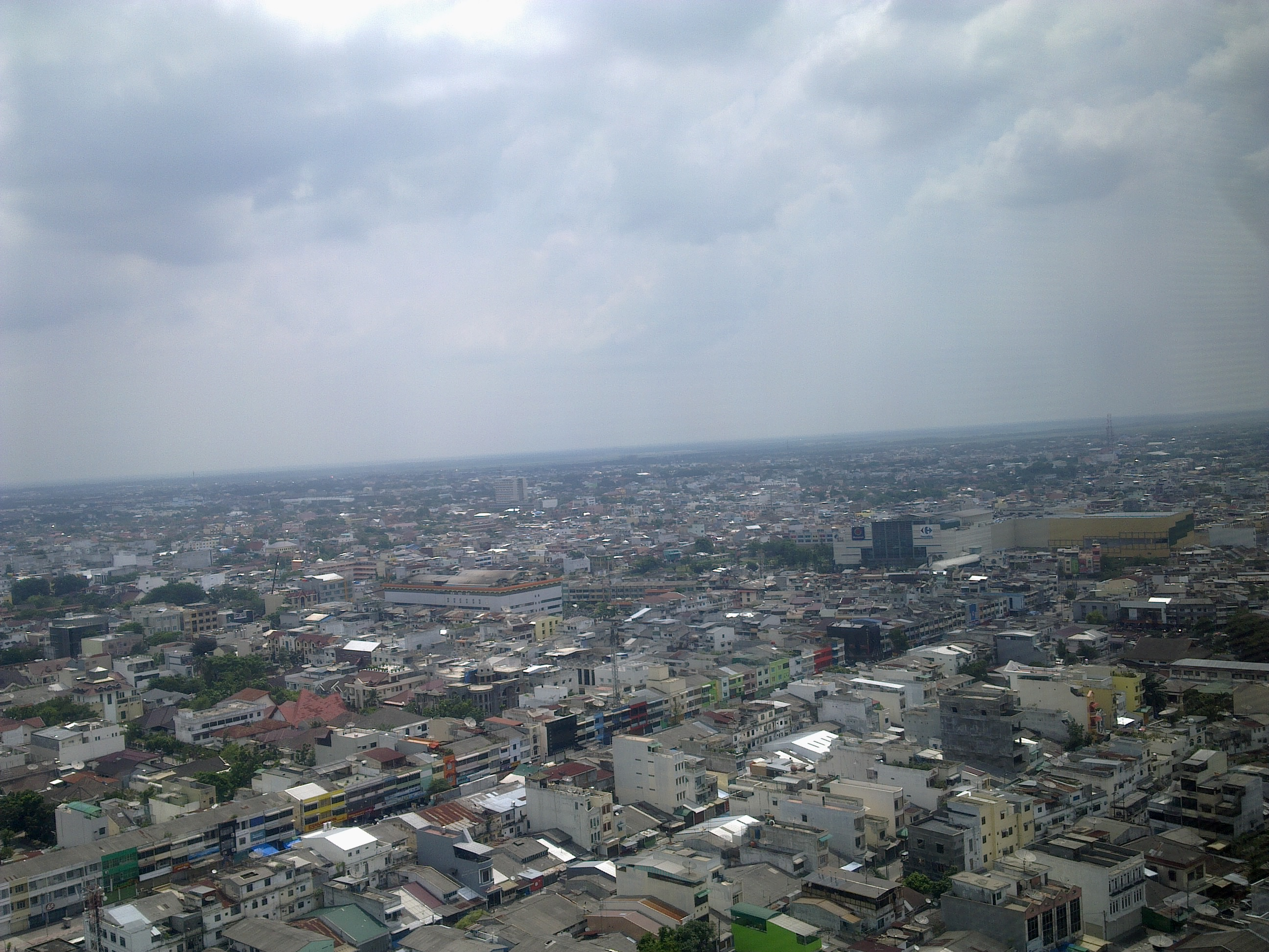 Medan skyline, taken from 26th floor of Grand Swiss belhotel.